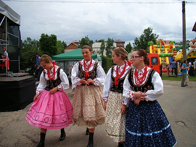 Laszki sądeckie